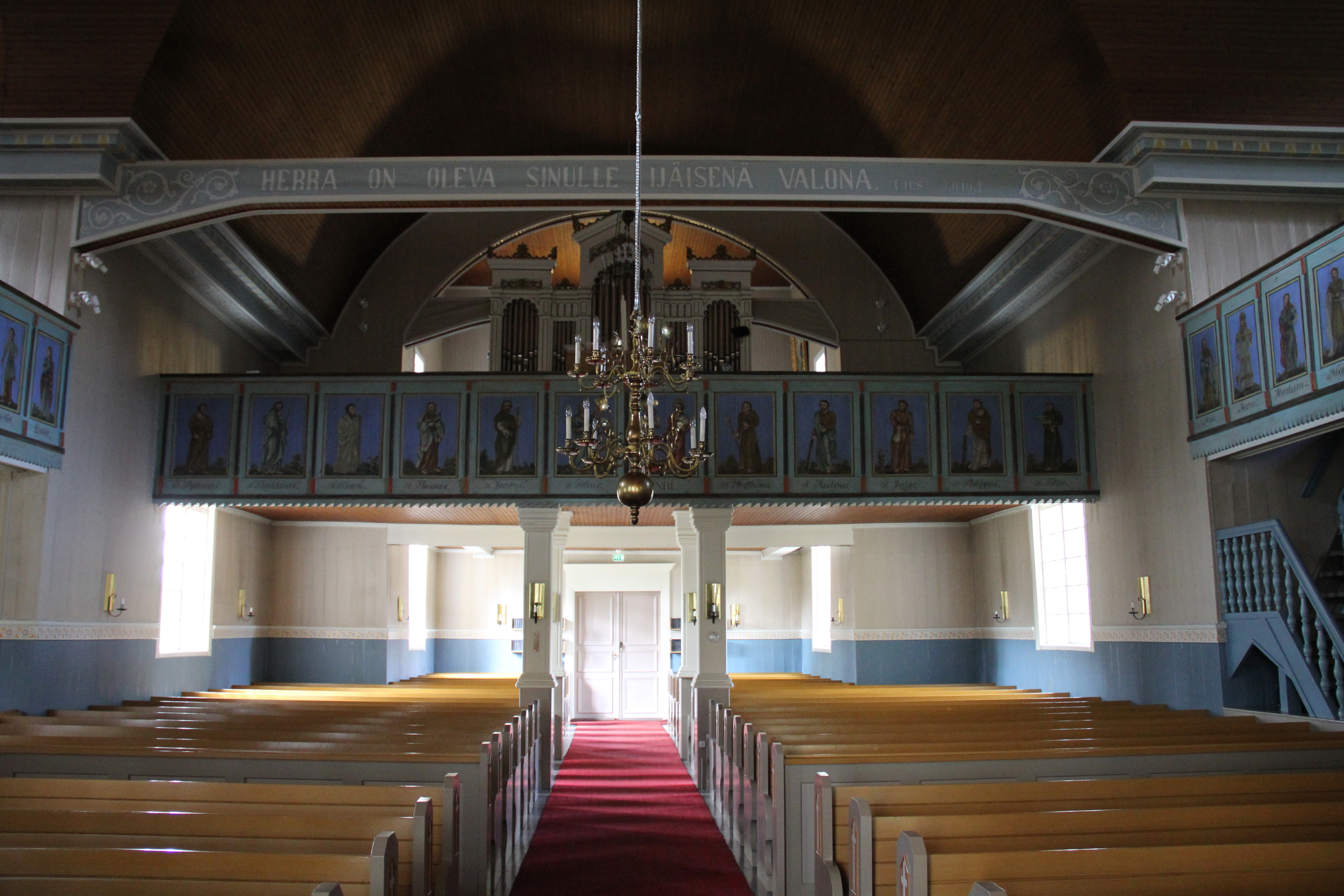 Tarvasjoki church, Tarvasjoki, Finland. Completed in 1779, built by Mikael Piimänen. The interior was renovated in 1916, it was designed by architect Ilmari Launis and it looks almost the same nowadays. Organ gallery.